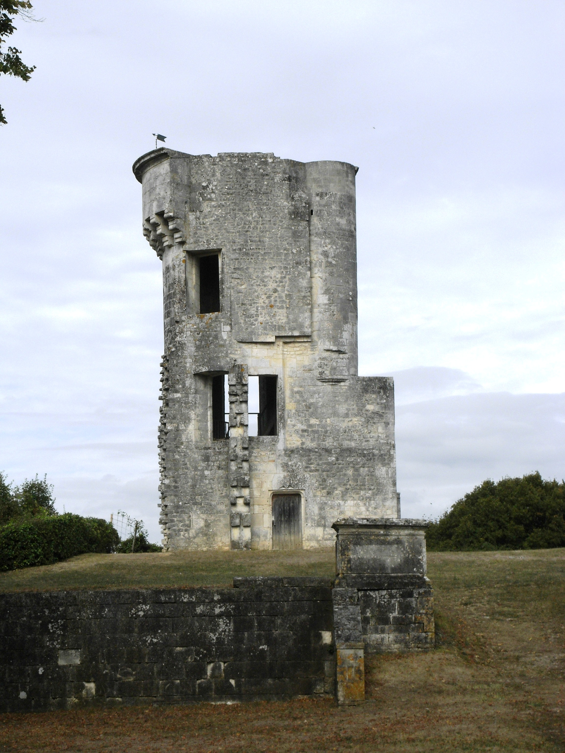 The ruins of Château de Taillebourg in Charente-Maritime, France